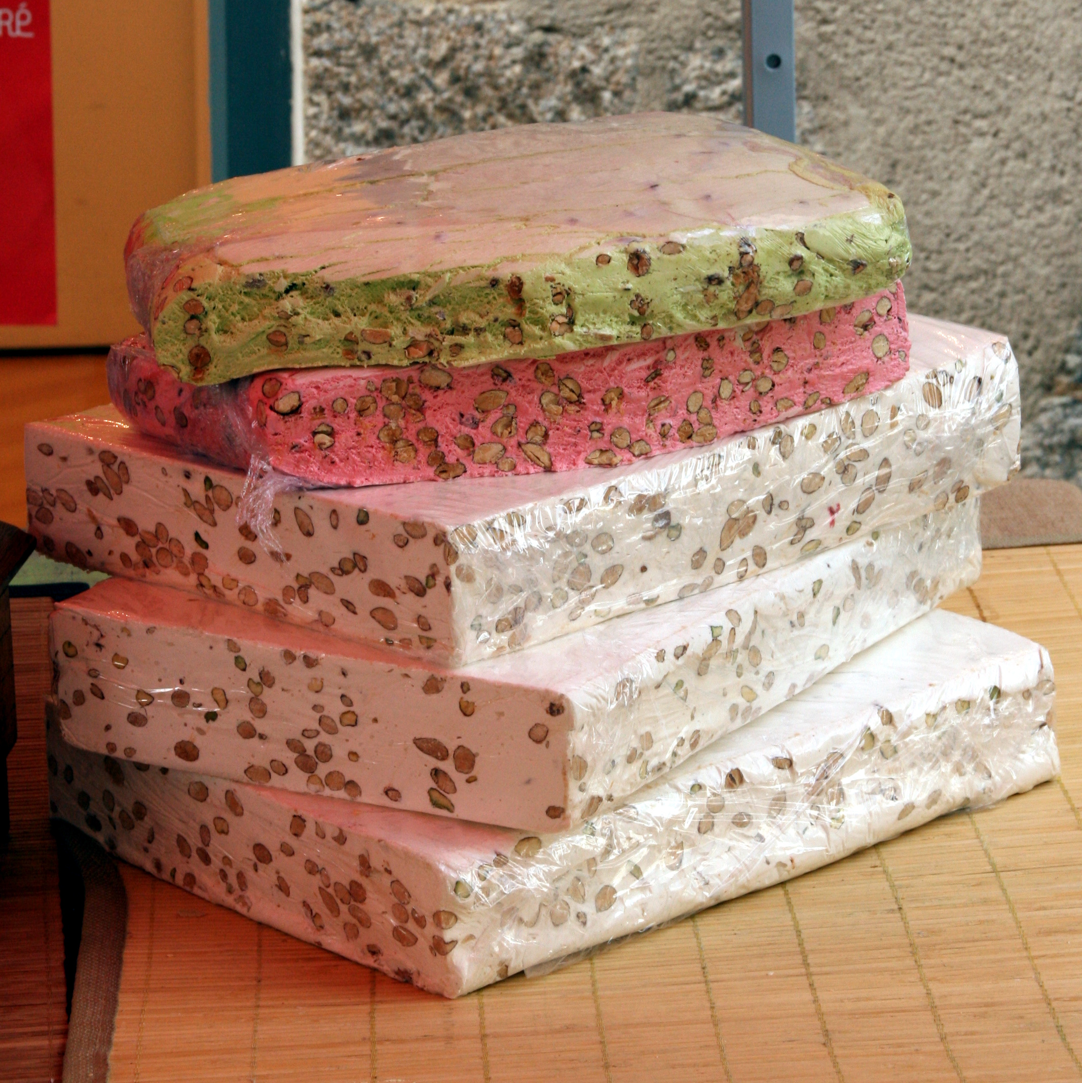 Montelimar's Nougat. Photograph taken in Redon, Brittany, France.